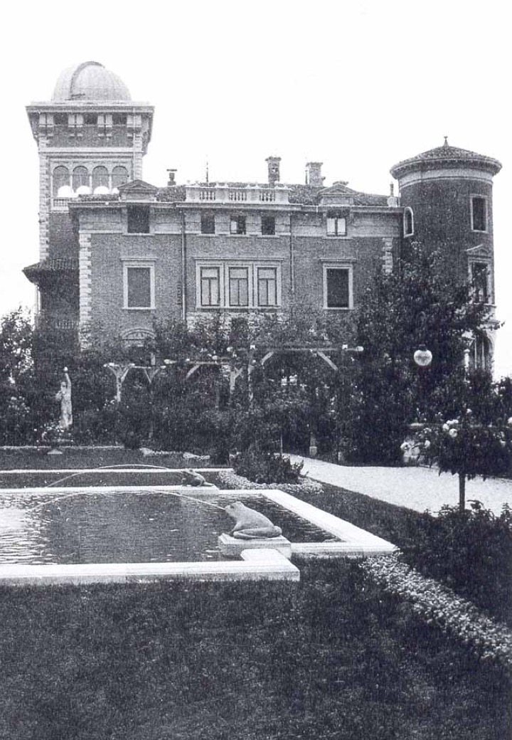 Villa Toeplitz 150 years ago.